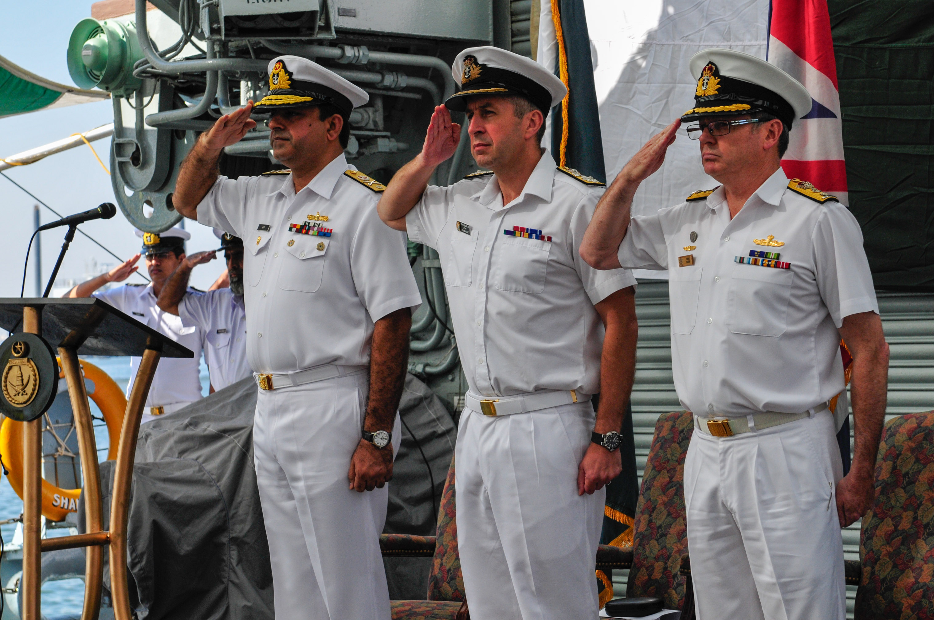 NAVAL SUPPORT ACTIVITY BAHRAIN (Dec. 1, 2013) From left to right, Commodore Asif Khaliq, of the Pakistan Navy, commander, Combined Task Force (CTF) 150 (outgoing), Commodore Keith Blount, deputy commander, Combined Maritime Forces (CMF), and Commodore Daryl W. Bates, commander, CTF-150, render honors for national anthems during a change of command ceremony. CTF-150 is a multinational task force that conducts counter terrorism and maritime security operations in the Gulf of Aden, Arabian Sea, Indian Ocean and the Red Sea. (U.S. Navy Photo By Mass Communication Specialist 1st Class Felicito Rustique/Released)